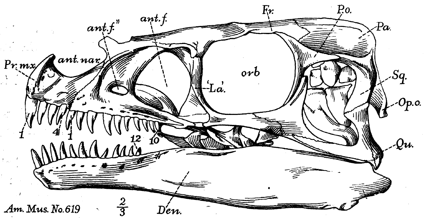 Reconstructed skull of type of Ornitholestes hermanni, Amer. Mus. No. 619, replacing the original figure (1903). Two-thirds natural size.